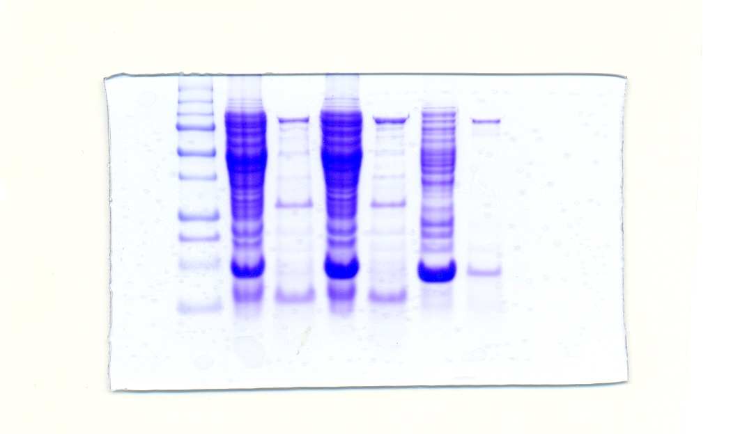 SDS-PAGE with Taq DNA Polymerase. SDS-PAGE is an useful technique to separate proteins according to their electrophoretic mobility. The marker is the Precision Plus Protein Standard all Blue. This SDS-PAGE was performed to determine the molecular weight of Taq DNA Polymerase.